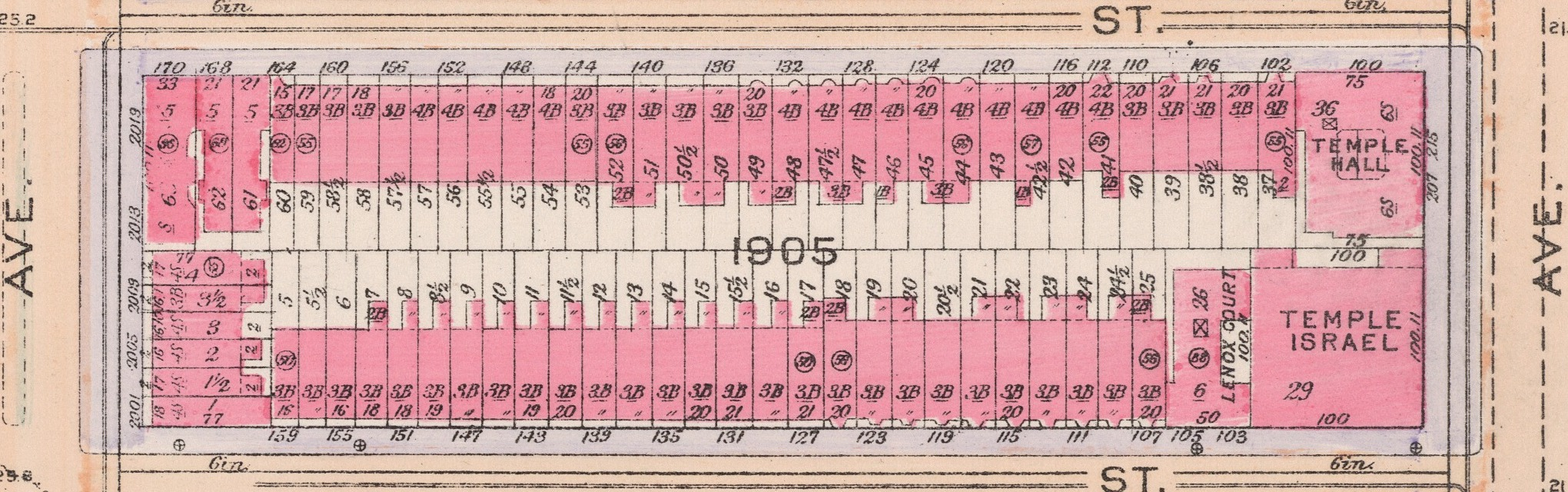 Plate 134 from: Bromley, George W. and Walter S. Atlas of the Borough of Manhattan City of New York. Desk and library edition. (New York: G. W. Bromley and Co., 1916) FOR KEY TO MAP SYMBOLS, CLICK HERE.